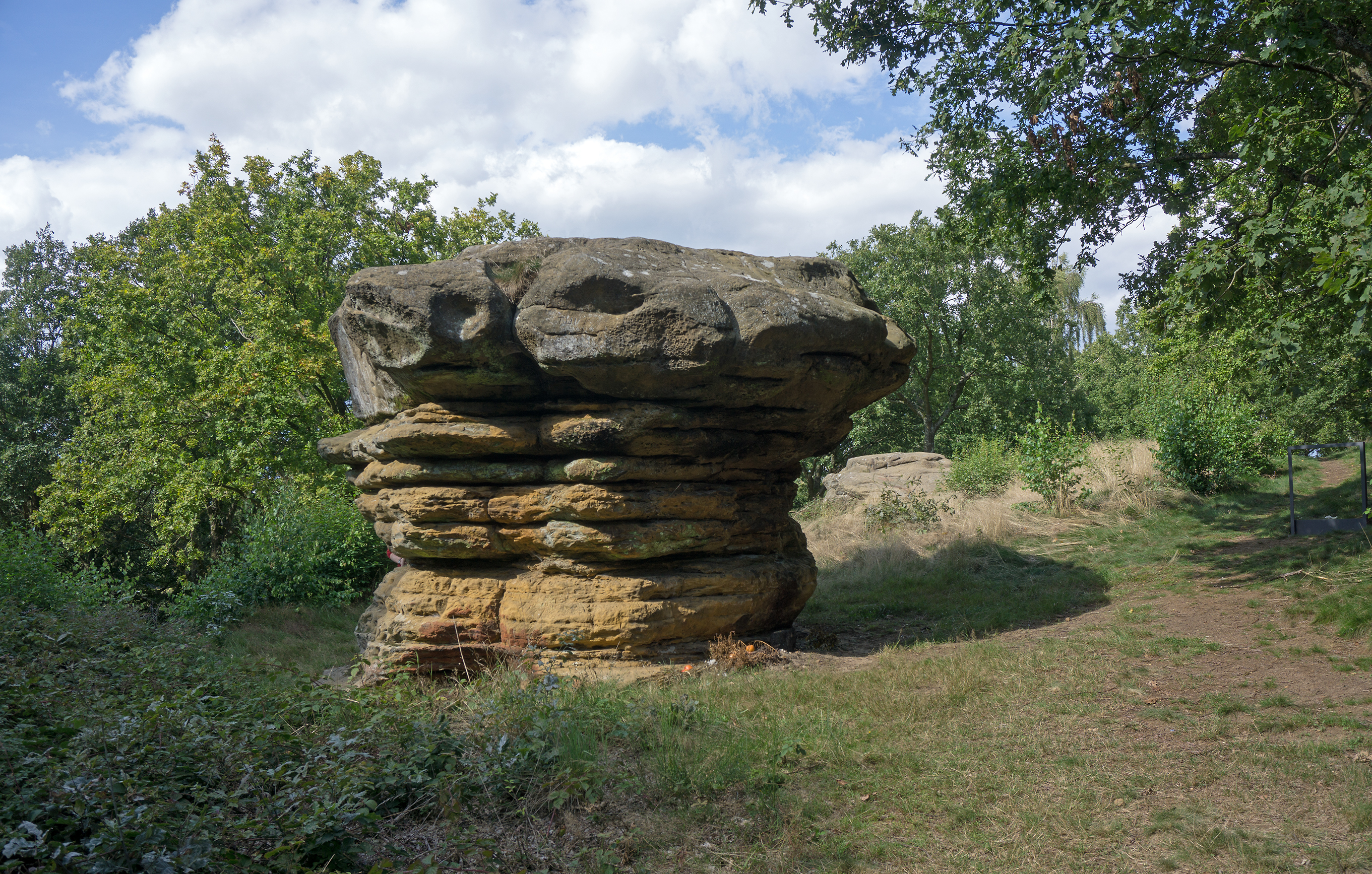 Rock formation in the protected landscape near Aechelbur